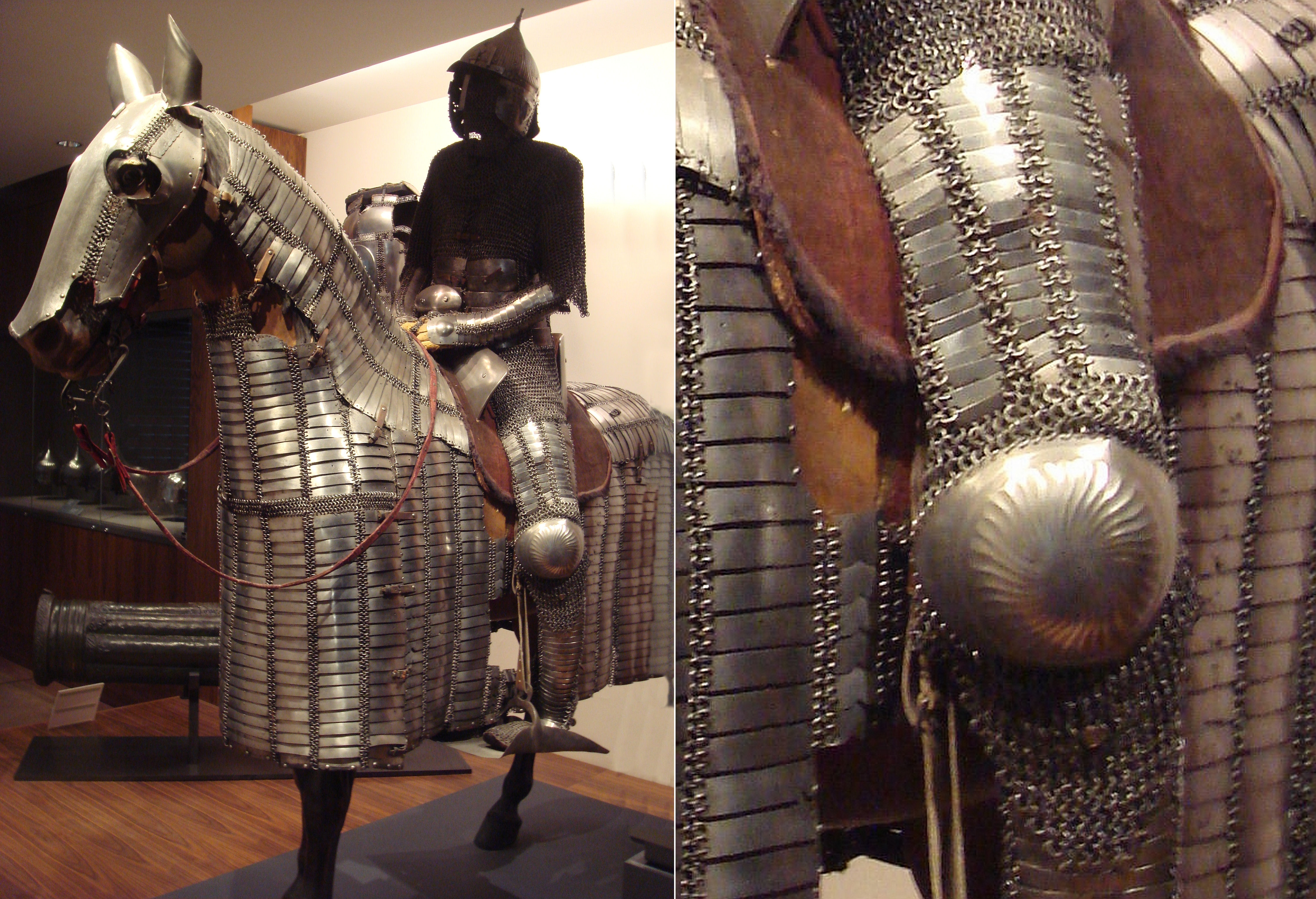 A complete suit of Ottoman Empire/mamluk armor as worn by fully armored cavalryman (sipahi) including chichak (helmet), zirh gomlak (mail shirt with plates), kolluk/bazu band (vambrace/arm guards), dizcek (cuisse or knee and thigh armor). This display has kolçak (greaves) mistakenly being worn as kolluk/bazu band (vambrace/arm guards). Circa 1550, photographed at Musee de l'Armee located at the Invalides in Paris, France. Cropped and edited to show the dizcek (cuisse or knee and thigh armor).